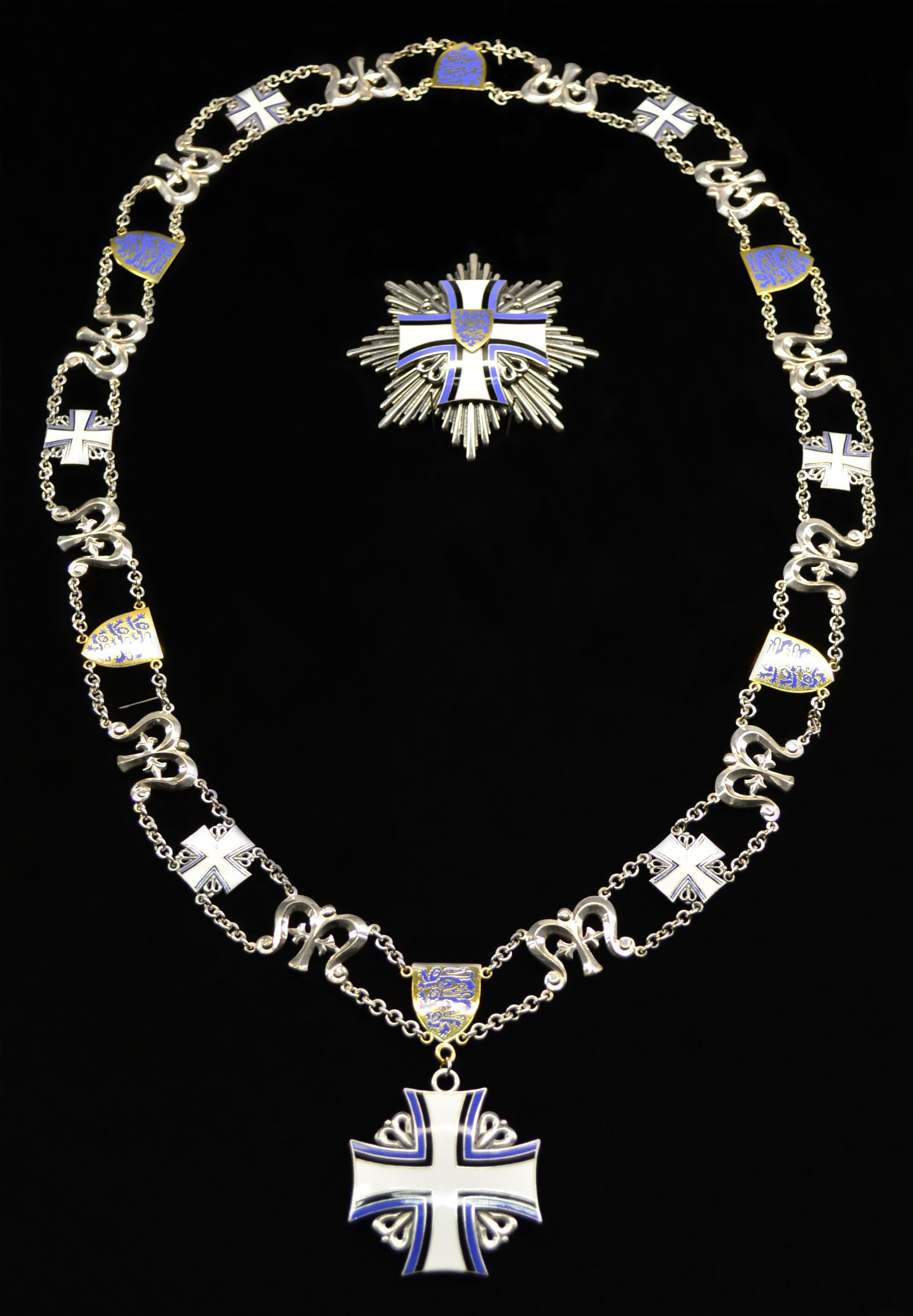 Estonia. Order of the Cross of Terra Mariana, insignias of the Collar class. The exhibition of the Estonian State Decorations at the National Library of Estonia in Tallinn.